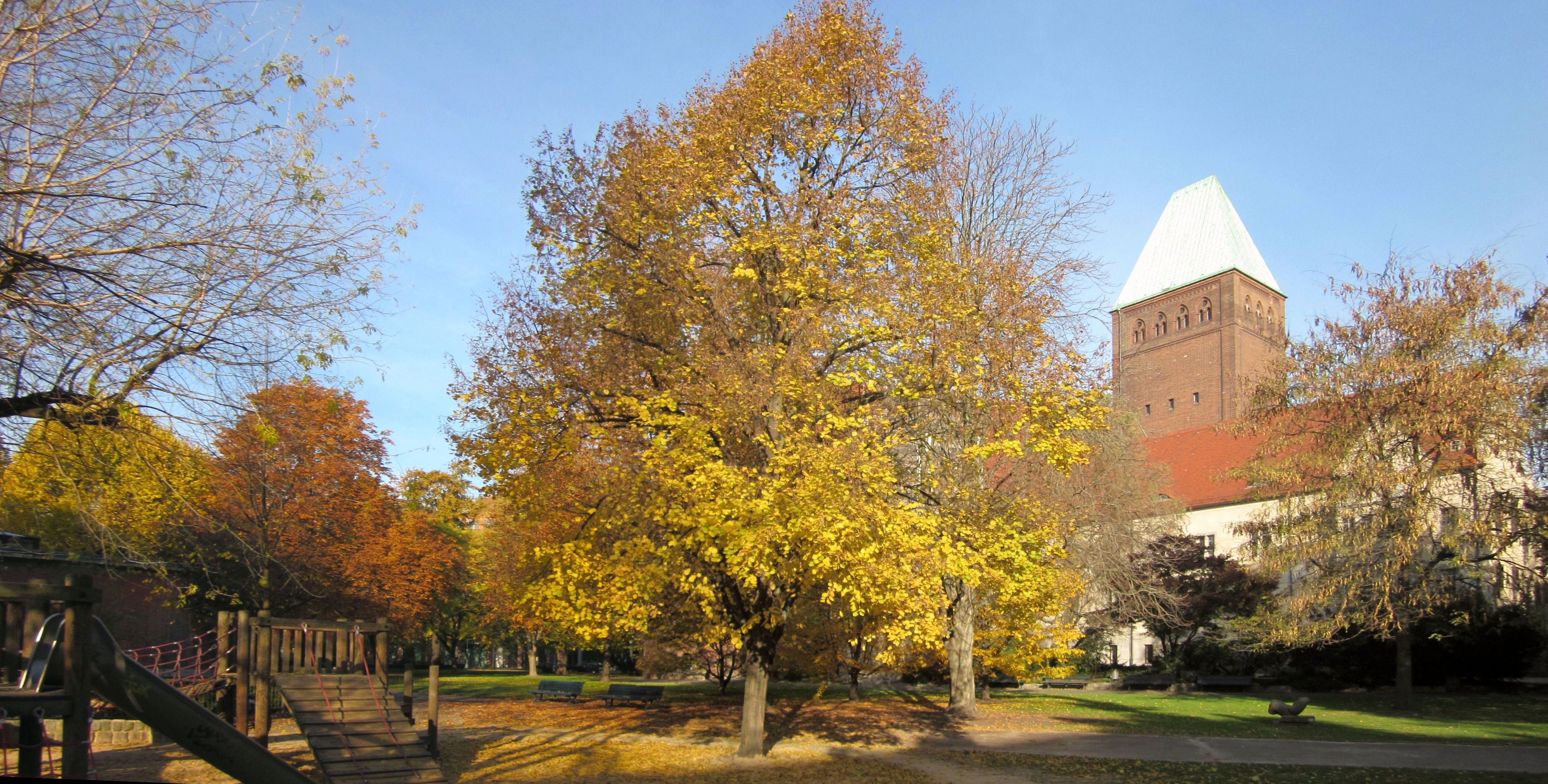 View of Köllnischer Park in Berlin-Mitte with the Märkisches Museum in the background.